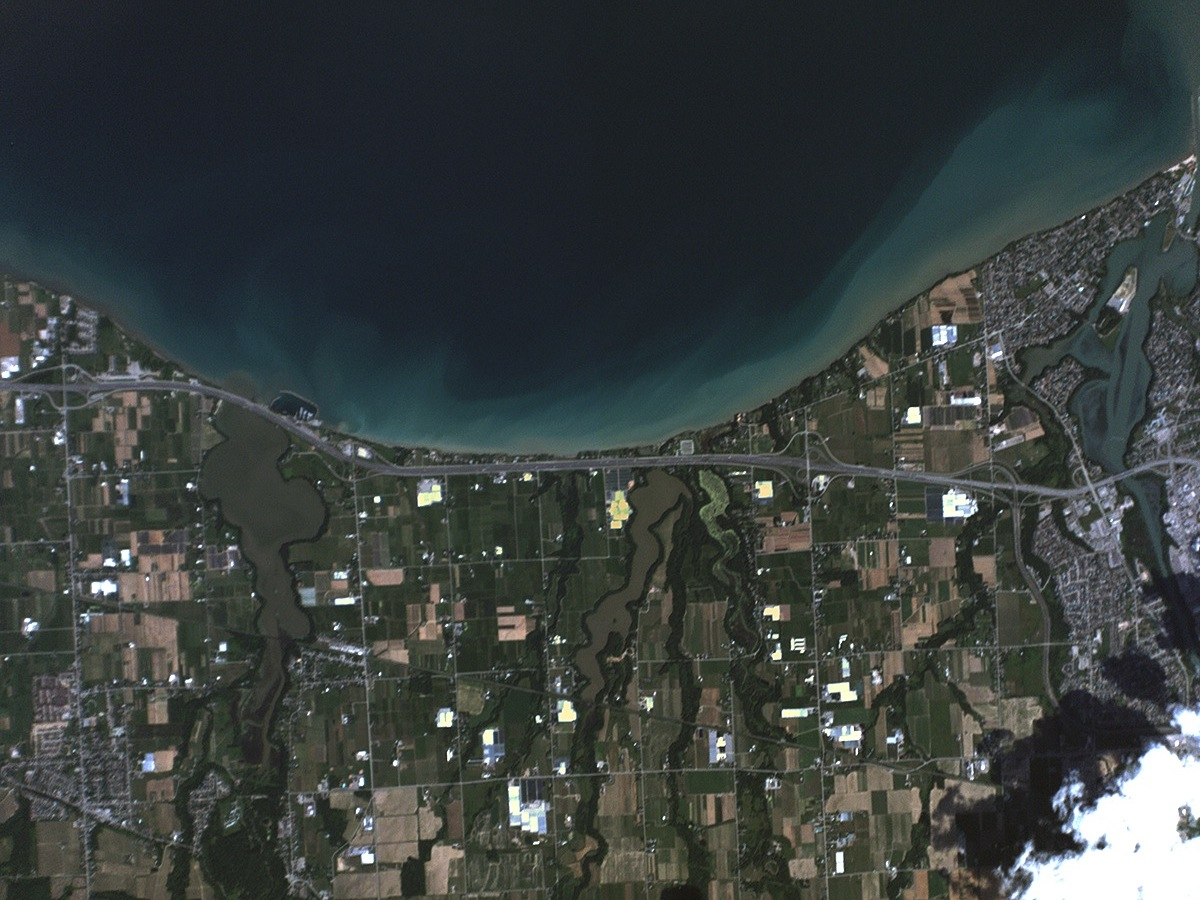 St. Catharines, Ontario Canada - Planet Labs stallite image. This coastline on Lake Ontario stretches from the western side of St. Catharines, the largest city in the Niagara region of Ontario, Canada. The Queen Elizabeth Way runs right by the water, heading to Toronto.